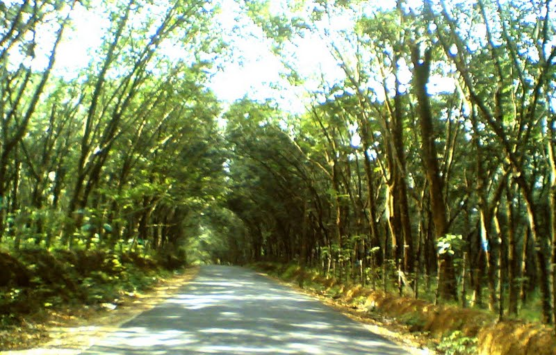 ayur----kottarakara Road.